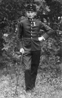 Henryk Korowicz, in Austro-Hungarian military hospital, Silesia, 1915. Sent as a postcard to the subject's father Joachim Kornreich, 9th August, 1915.